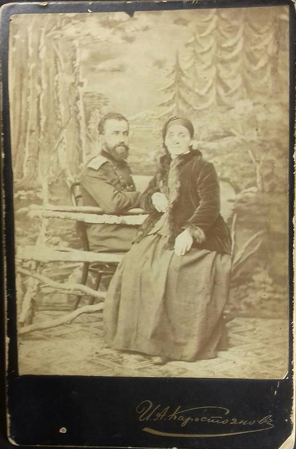 Lieutenant general Petar Tantilov with his mother in 1886